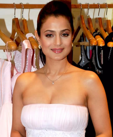 Ameesha Patel at Amisha,Manjari and Sonia grace Nishka Lulla's preview